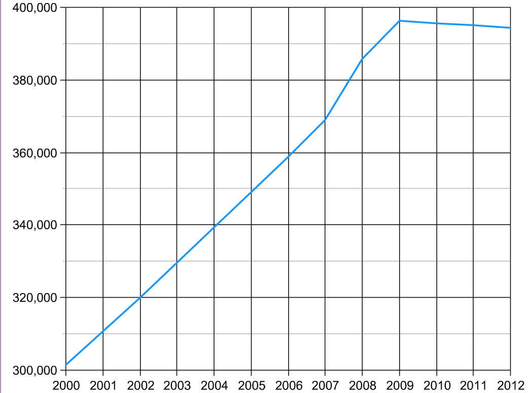 The Maldives population (2000-2012).Data from CIA World Factbook